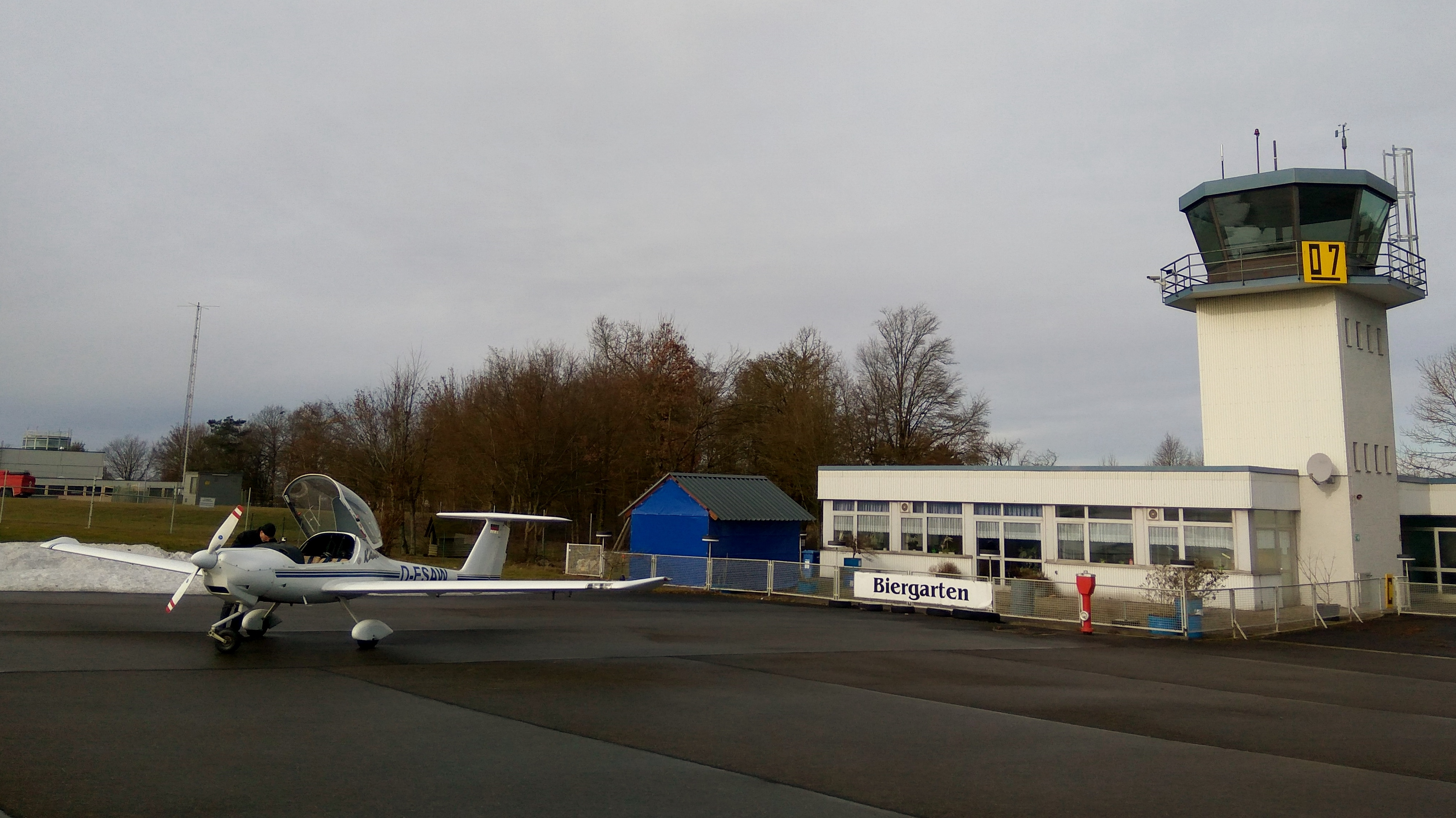 CIVIL TOWER OF NIEDERSTETTEN AIRFIELD ETHN